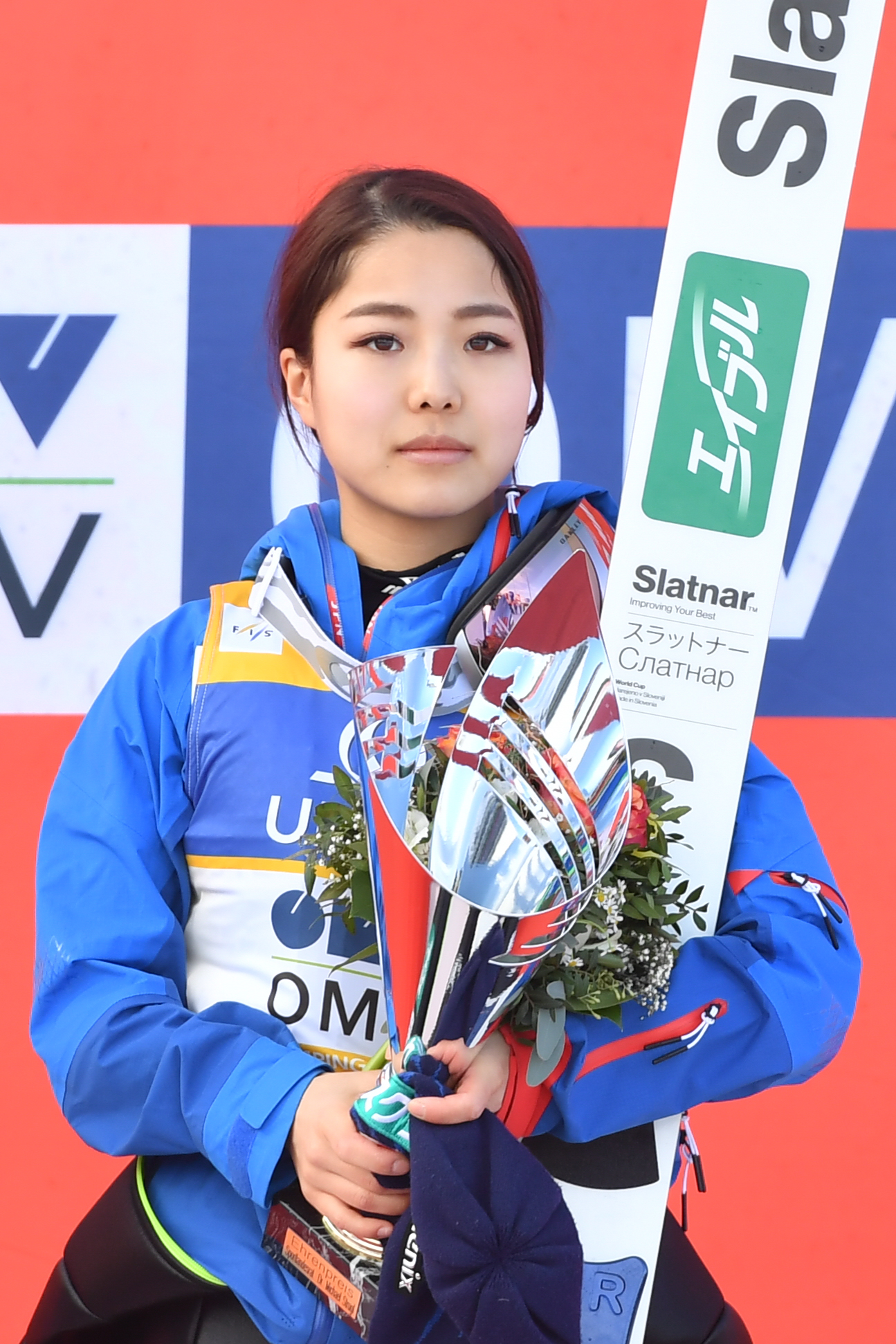 05/02/17, Hinzenbach, Austria, FIS Ski Jumping World Cup Ladies 2017